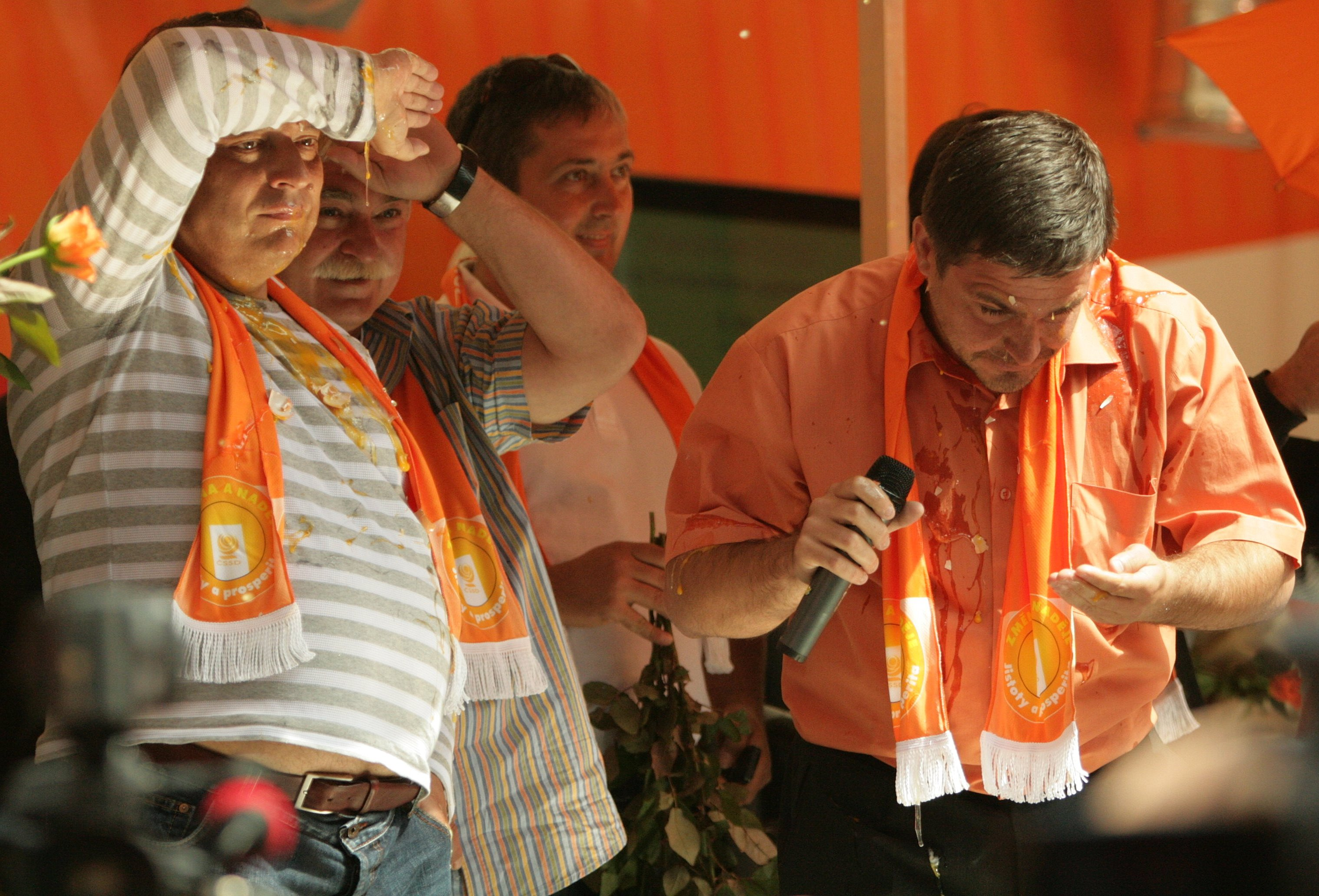 Jiri Paroubek and Karel Březina attacked with eggs on rally for European parliament elections 2009, Prague, Andel